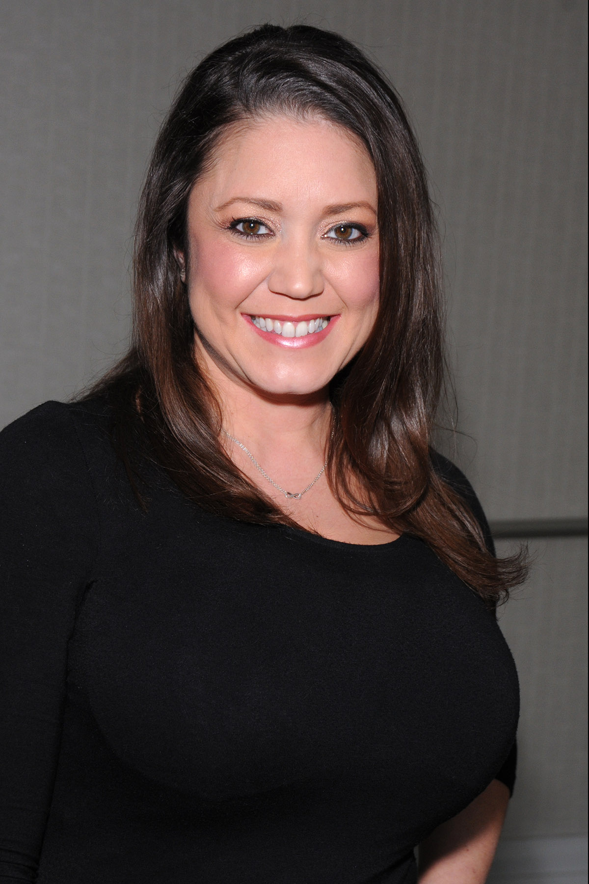 Miriam Gonzalez, Hollywood, California on January 4, 2014 - Photo by Glenn Francis of